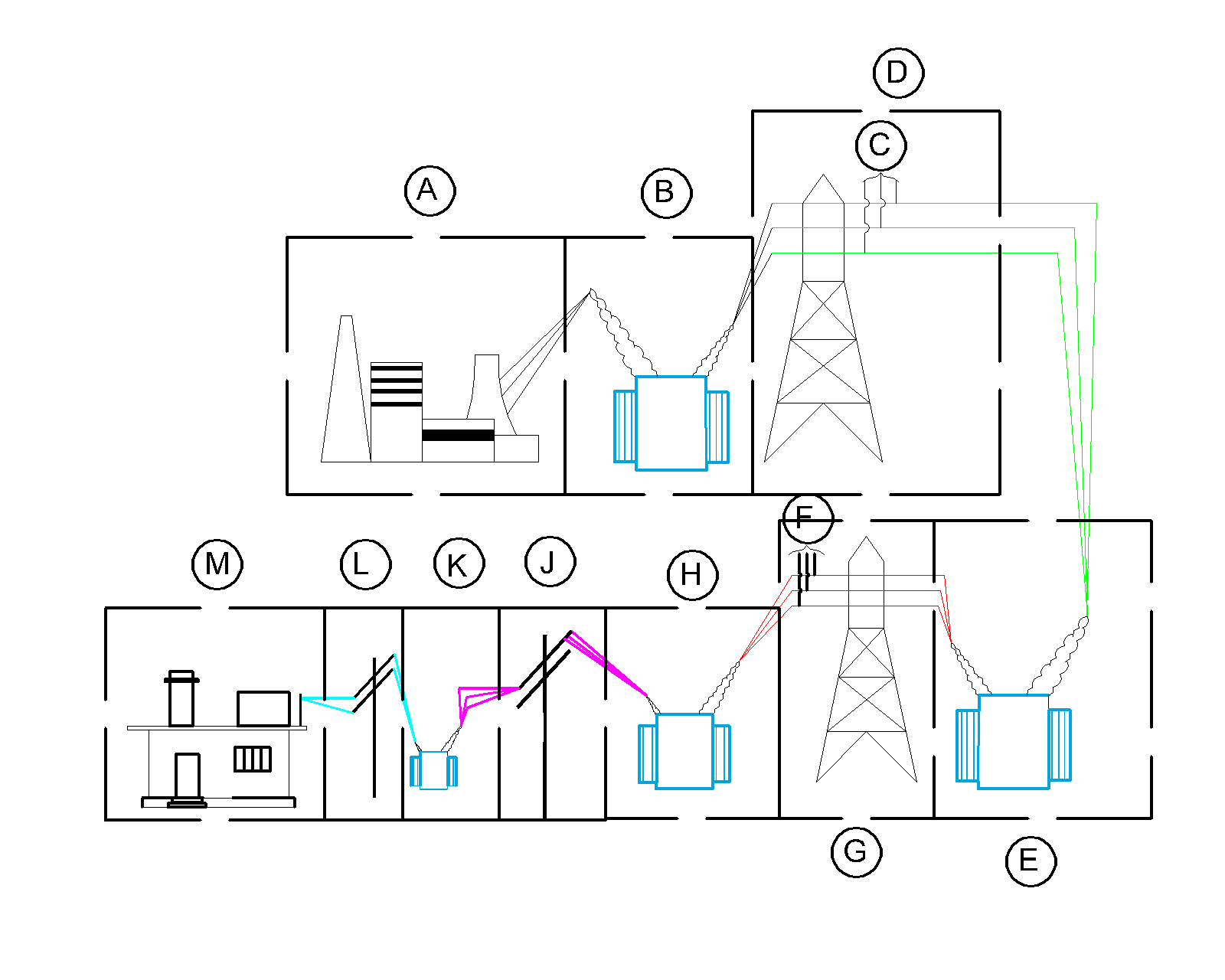 Transmission electric